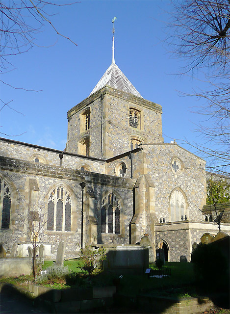 The Church of St Nicholas at Arundel, West Sussex It is interesting to look at the symmetrical aerial view of this building on the Googlemap satellite image link on this page. This is a rare example of a church building that is currently divided into two places of worship; the eastern half being the Catholic Fitzalan Chapel and this, the western half being the Anglican Church of St Nicholas. The whole Perpendicular Gothic building was originally built in 1380.